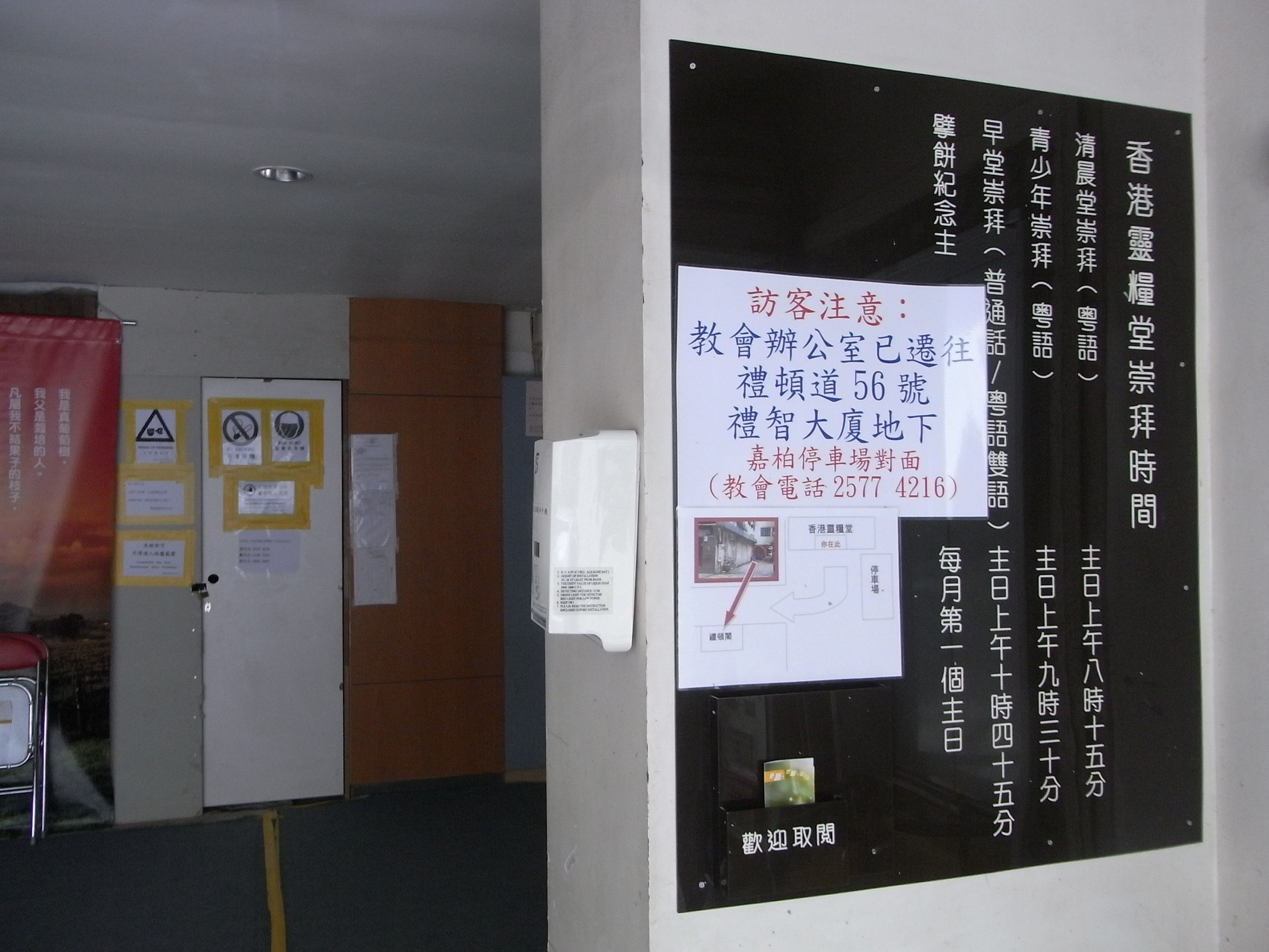 銅鑼灣禮頓道 禮頓里